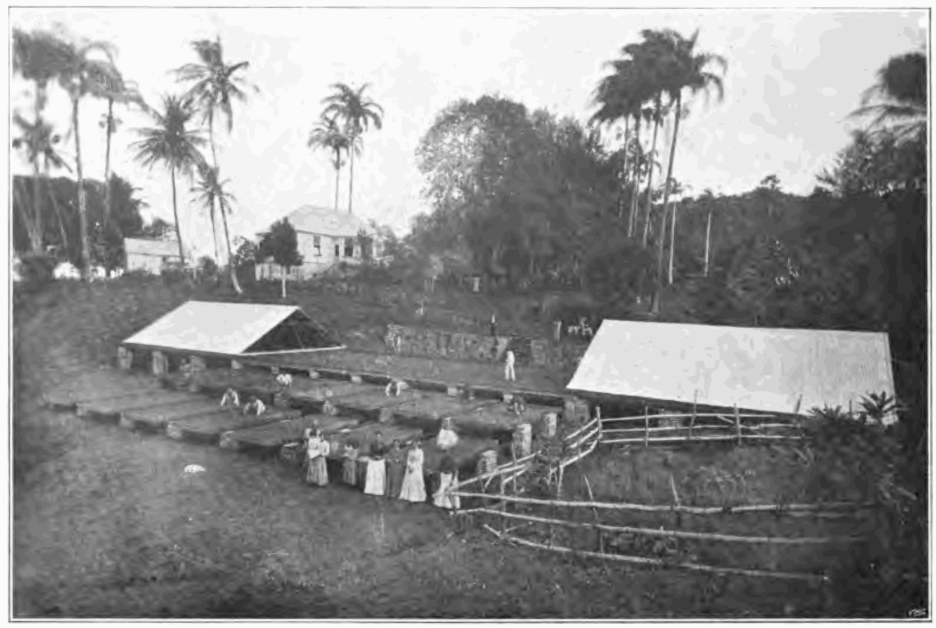 Samaritan estate on Granada B.W.I.